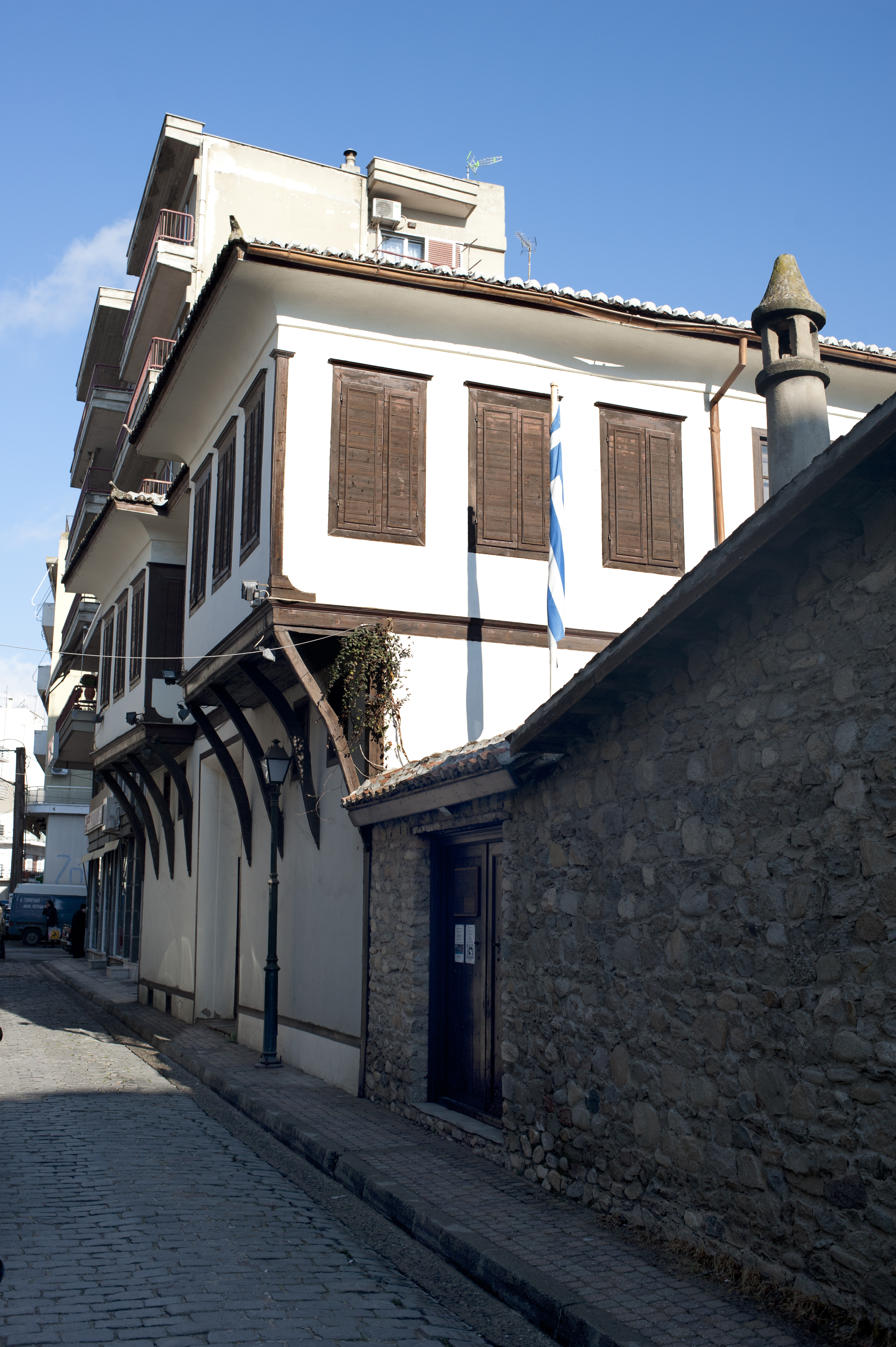 Folkrore Museum Komotini Rhodope West Thrace Greece.